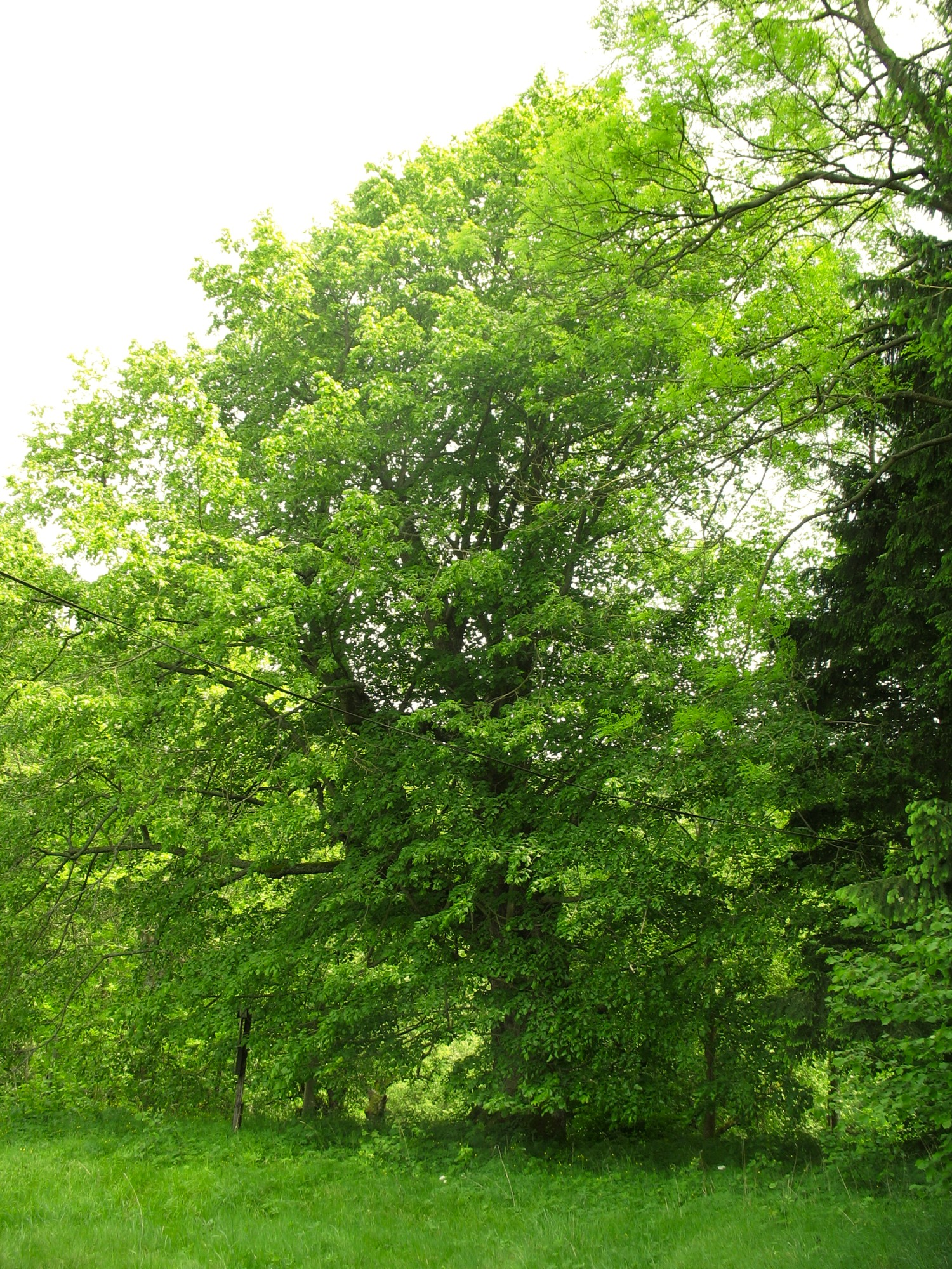 Famous tree called "Běleňská lípa" in Běleň village near Malšín, Český Krumlov District, Czech Republic